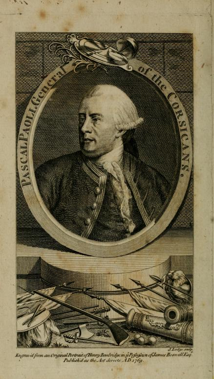 Engraved illustration from title page of "An Account of Corsica" published in 1768 by James Boswell